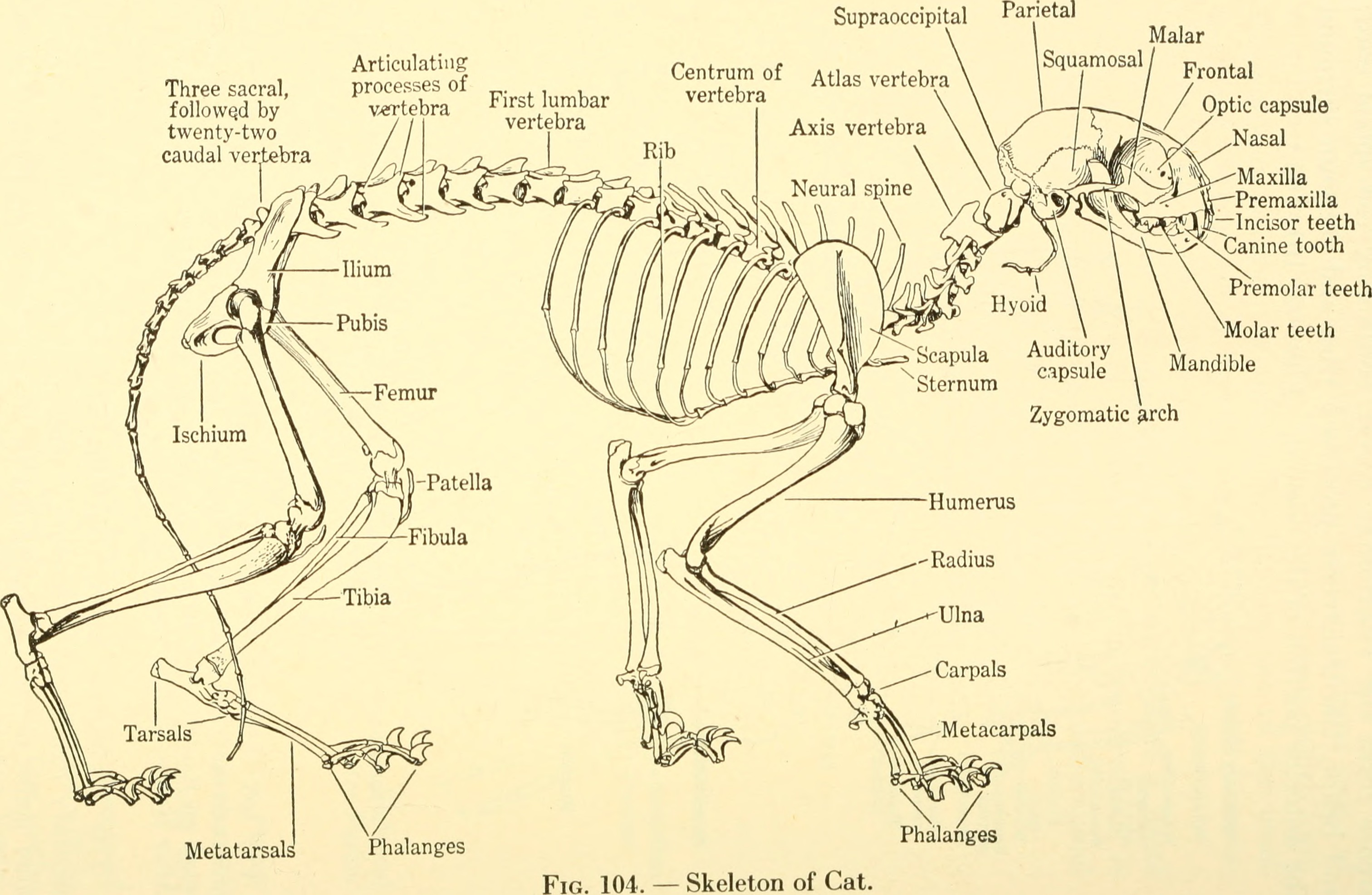 Title: Animal biology Year: 1938 (1930s) Authors: Woodruff, Lorande Loss, 1879-1947 Subjects: Biology; Zoology; Physiology Publisher: New York The Macmillan company Text Appearing Before Image: ' Text Appearing After Image: 142